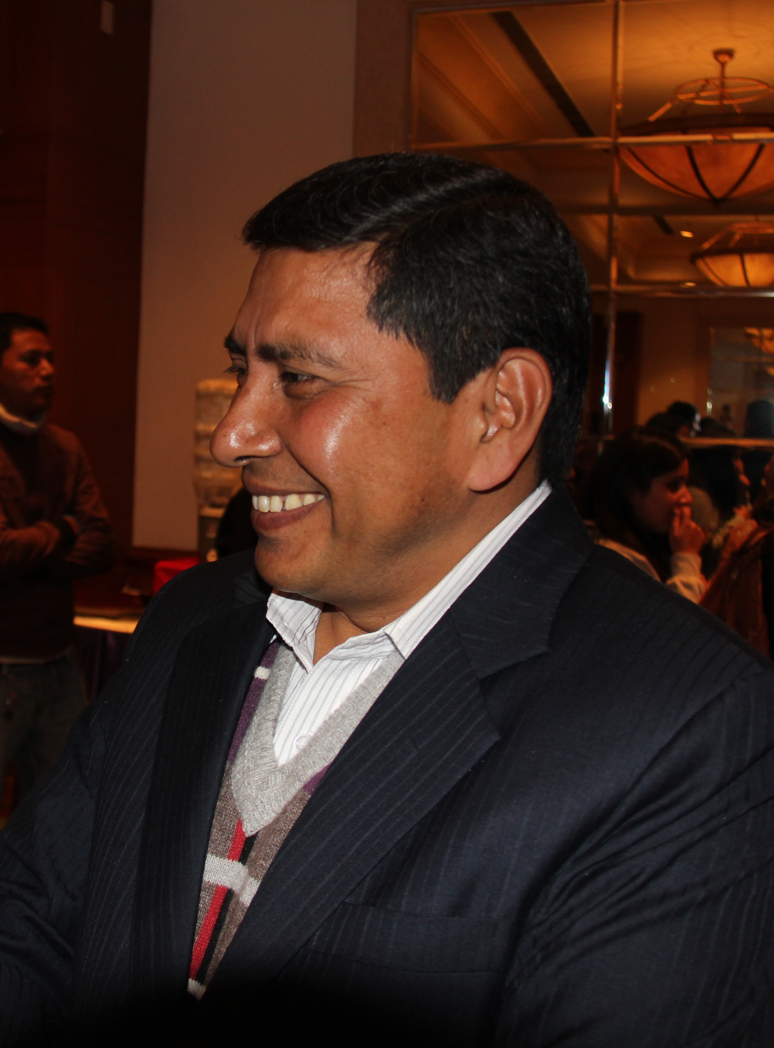 Narayan Kaji Shrestha 'Prakash' is vice chairman of UCPN Maoist